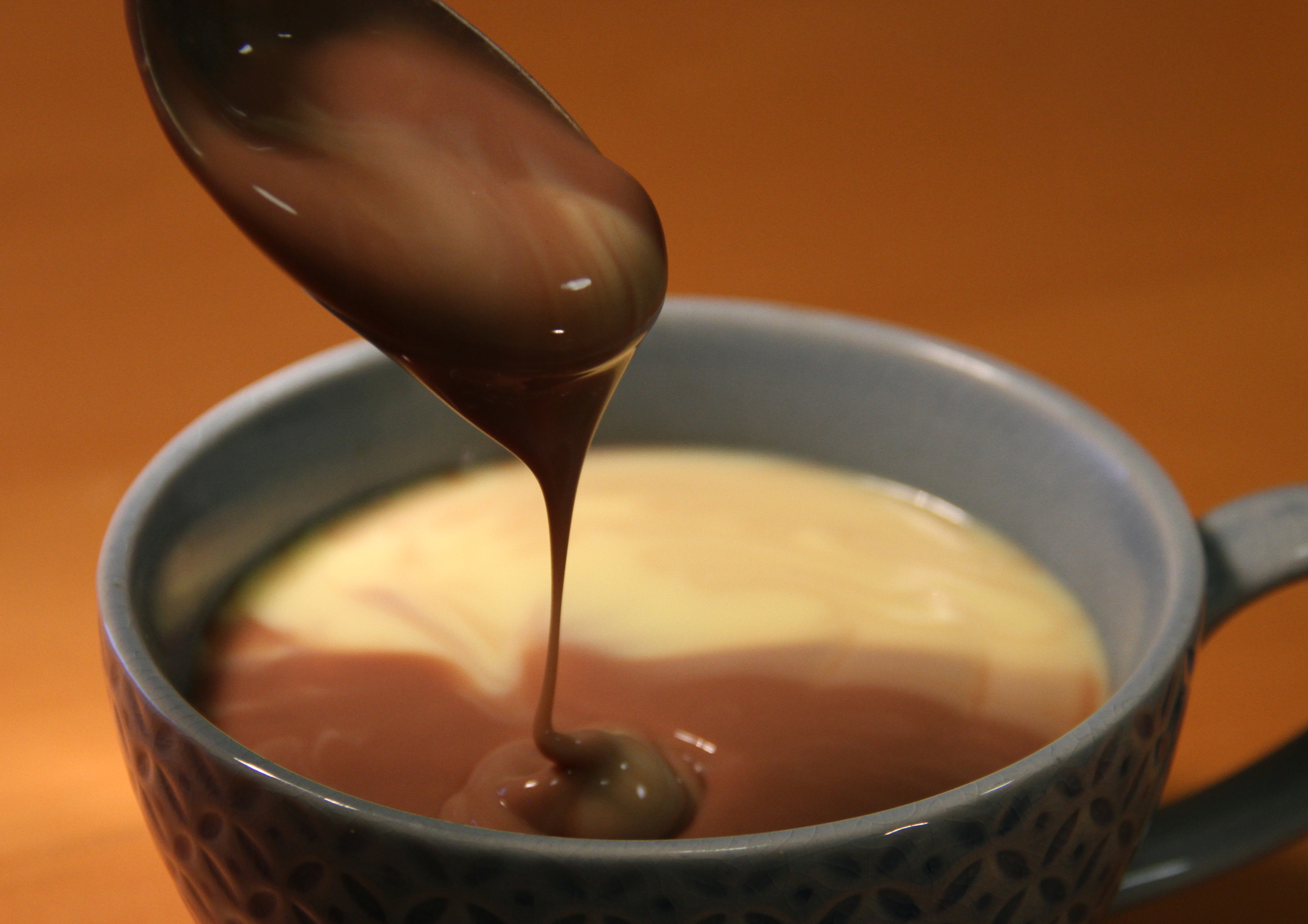 Dutch vla (flavors chocolate and vanilla)